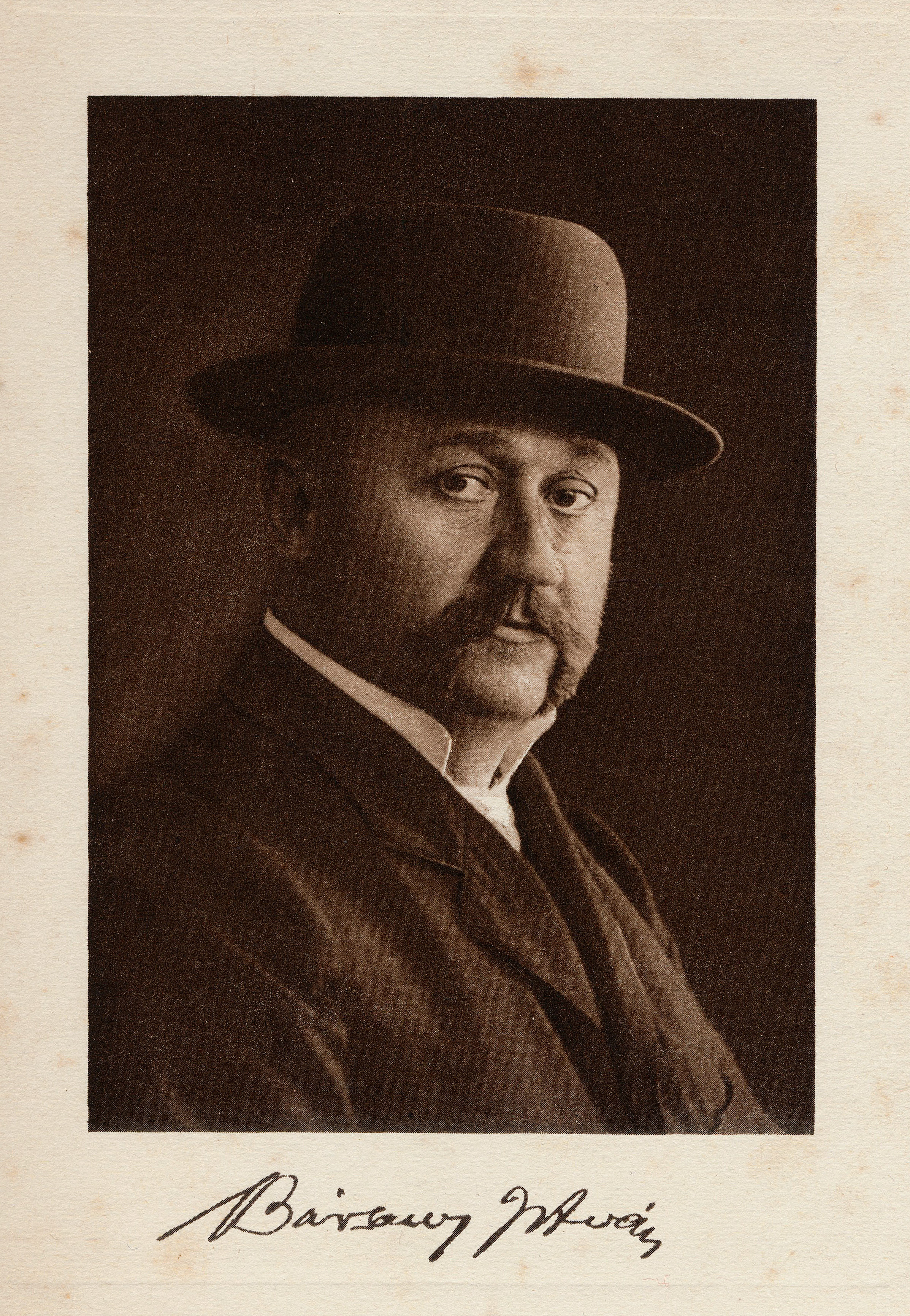 István Bársony (1855-1928) Hungarian writer